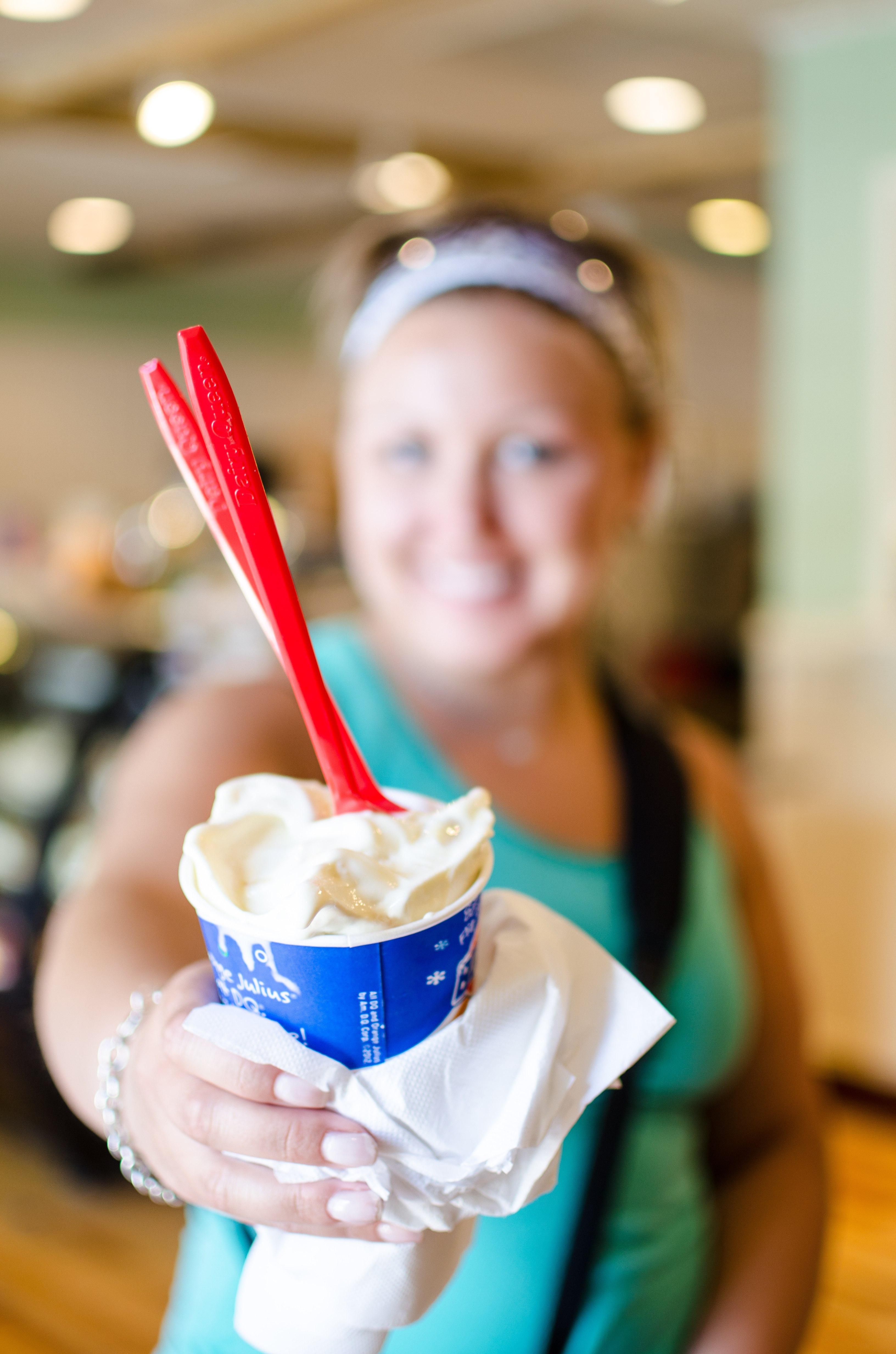 A woman holding a Dairy Queen Banana Cream Pie Blizzard on July 13, 2013 in Keystone, South Dakota, United States